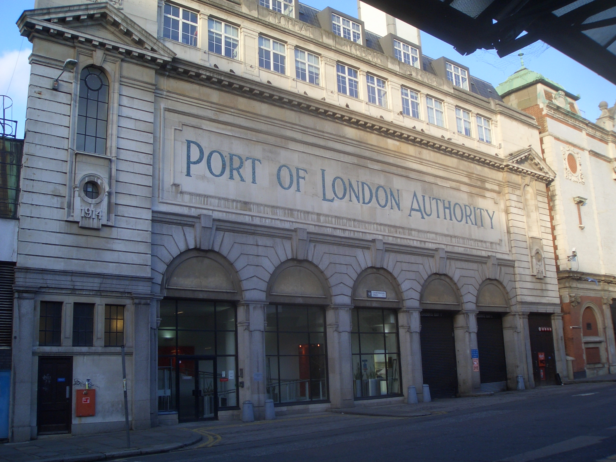 Port of London Authority building on Charterhouse Street. Photo taken by User:Edward on 4 December 2005.